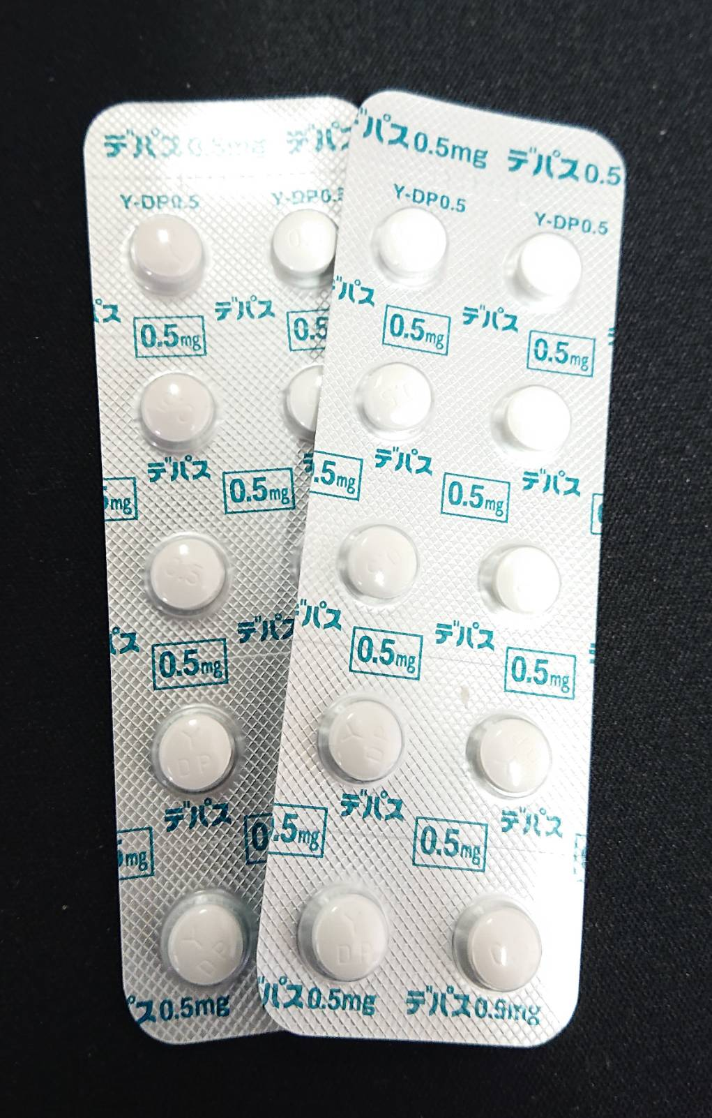 Depas common name is Etizolam